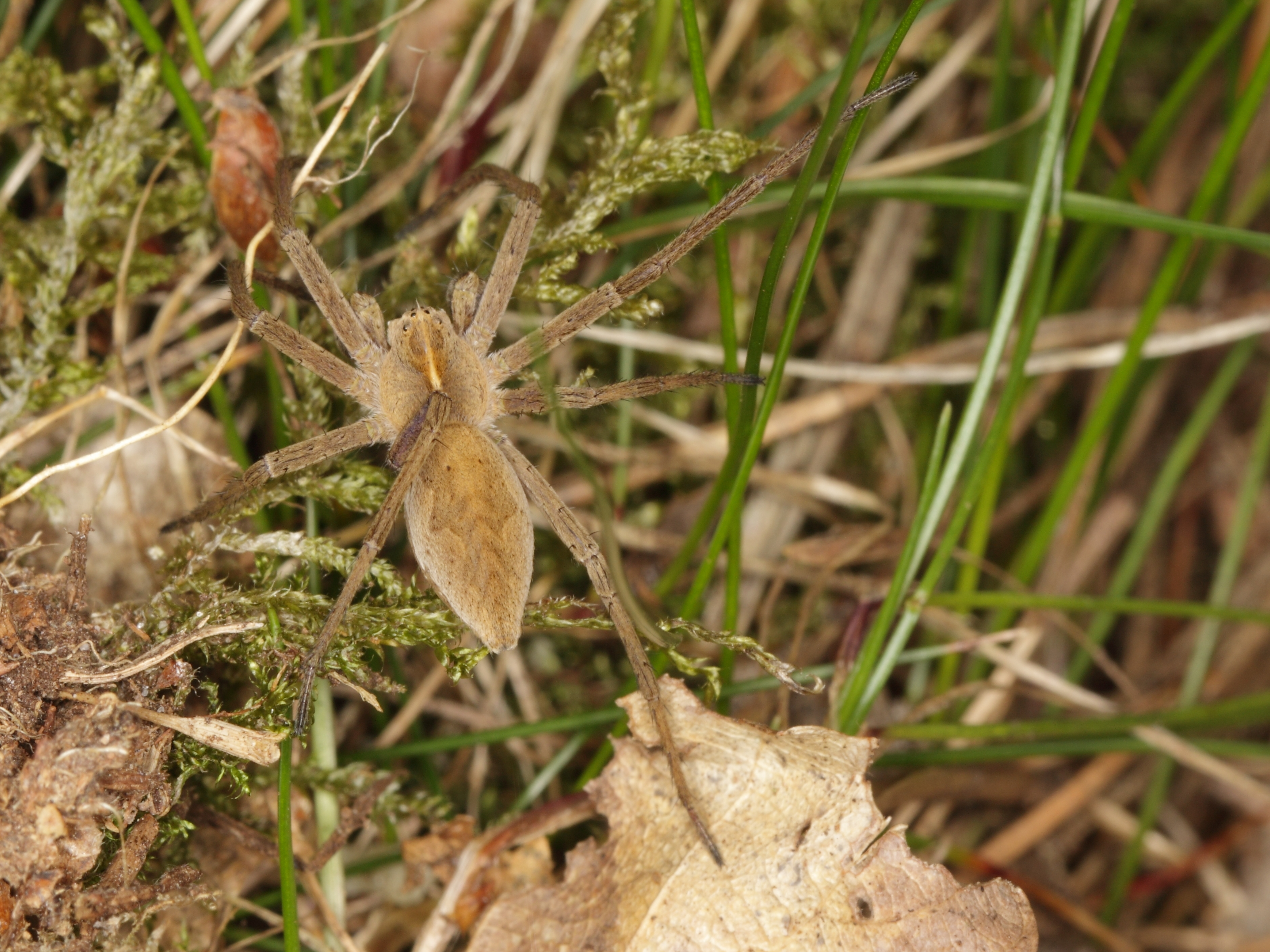 Phylum: Arthropoda LATREILLE, 1829 (arthropods, Gliederfüßer) Subphylum: Chelicerata Class: Arachnida CUVIER, 1812 (arachnids) Subclass: Micrura Order: Araneae CLERCK, 1757 (spiders, Spinnen) Suborder: Araneomorphae (Echte Webspinnen) Superfamily: Lycosoidea Family: Pisauridae SIMON, 1890 (nursery web spiders, Jagd- oder Raubspinnen) Genus: Pisaurina ? Pisaurina mira WALCKENAER, 1837 (Nursery Web Spider) ?? Germany, Brandenburg, vic. Königs-Wusterhausen: Dubrow (mixed forest with old oaks), 01.05.2013 IMG_3315